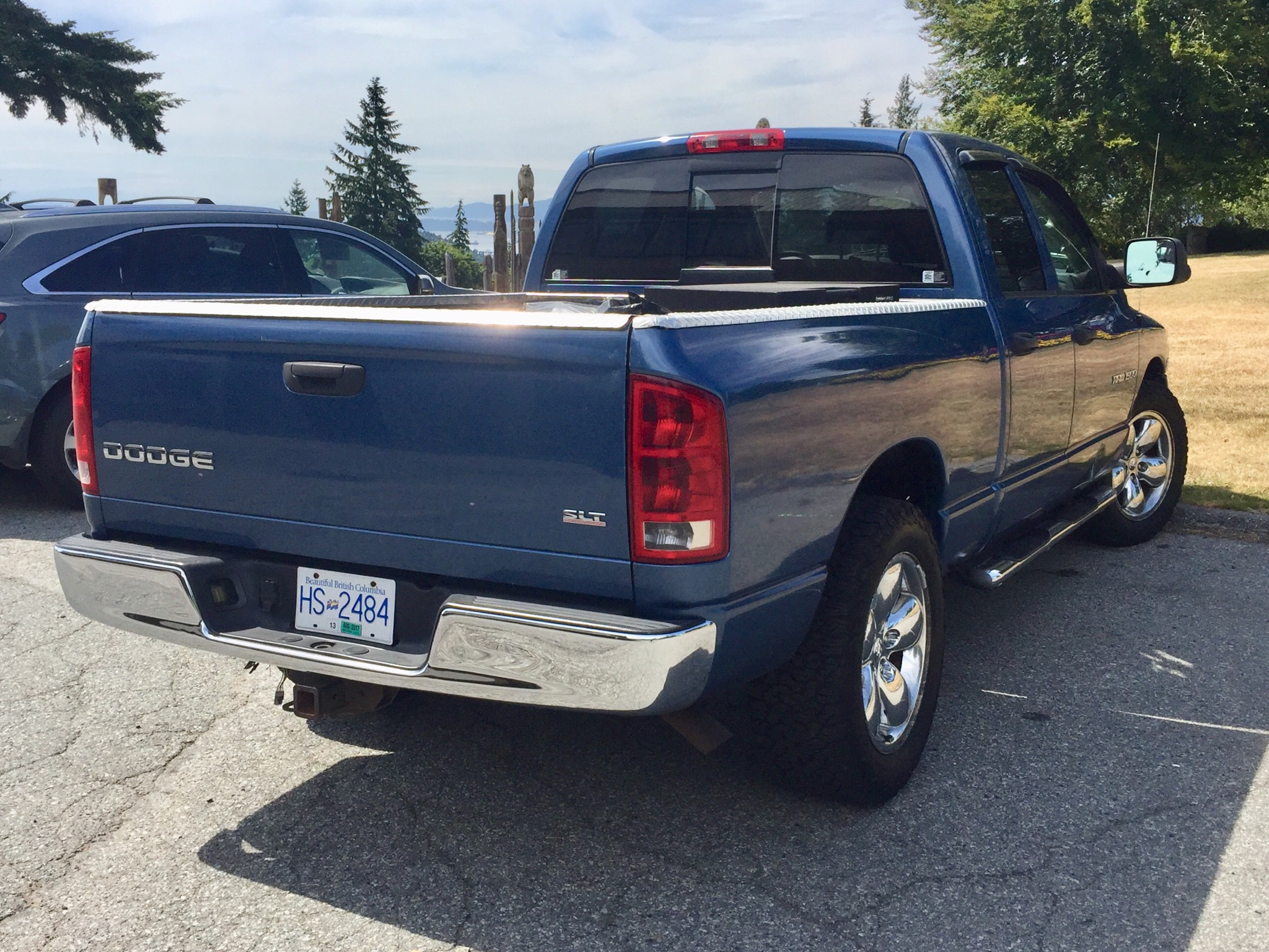 A blue Dodge RAM 1500 in Burnaby, Greater Vancouver, Canada